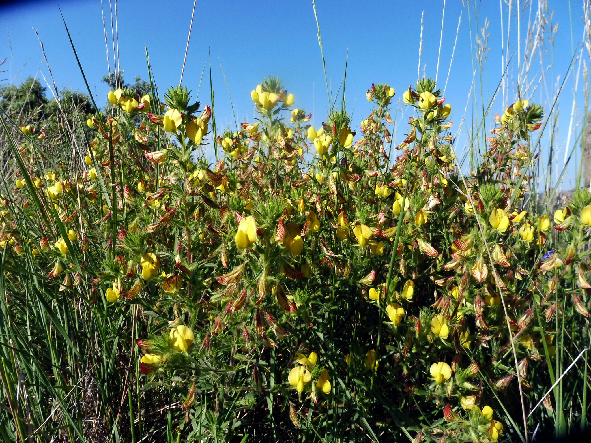 Ononis natrix. In Sant Honorat (Peramola - Alt Urgell - Catalunya). To 940 m altitude This is a a photo of a natural area in Catalonia, Spain, with id: ES510175